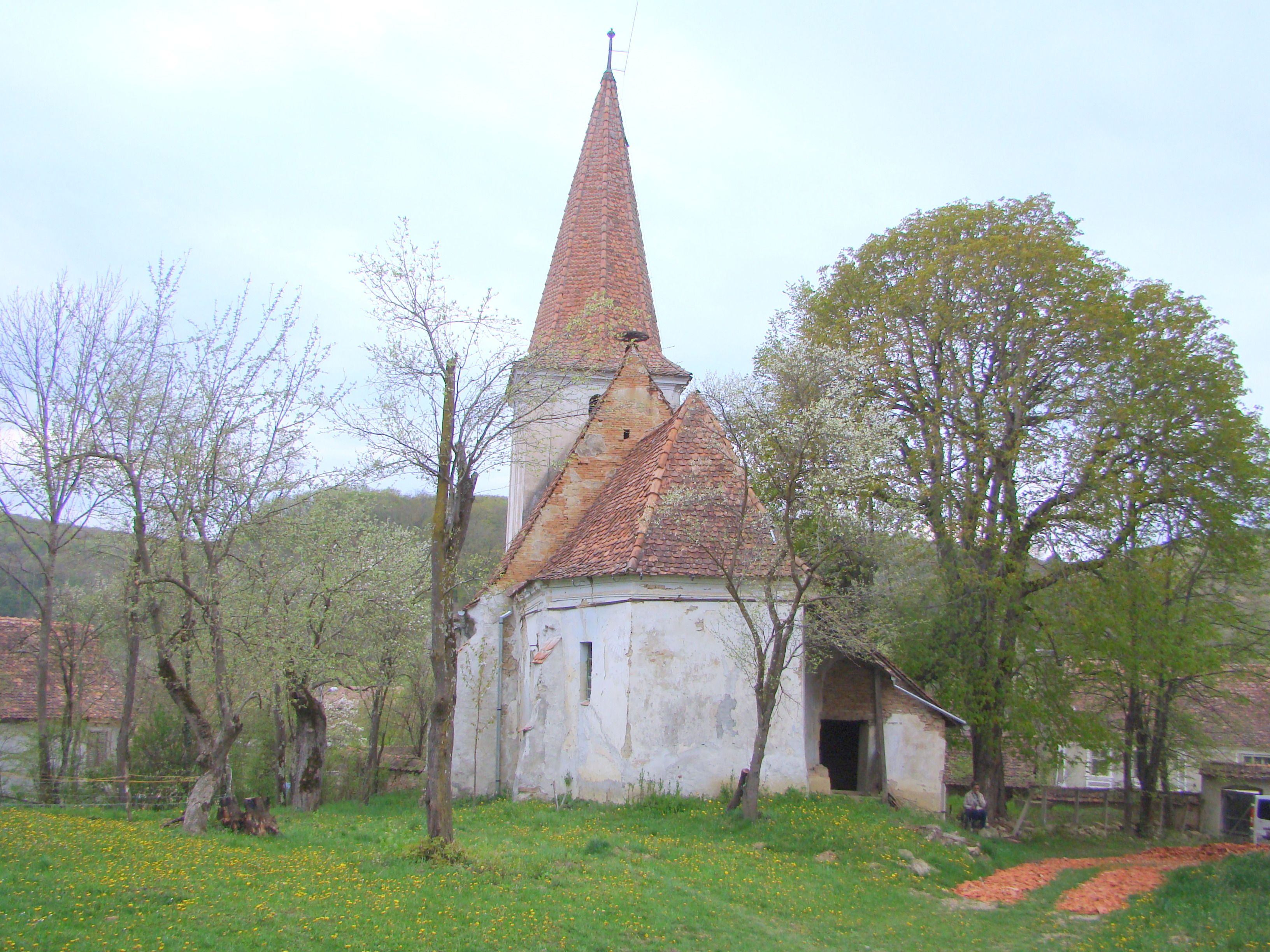 Lutheran church in Vulcan, Mureș county, Romania